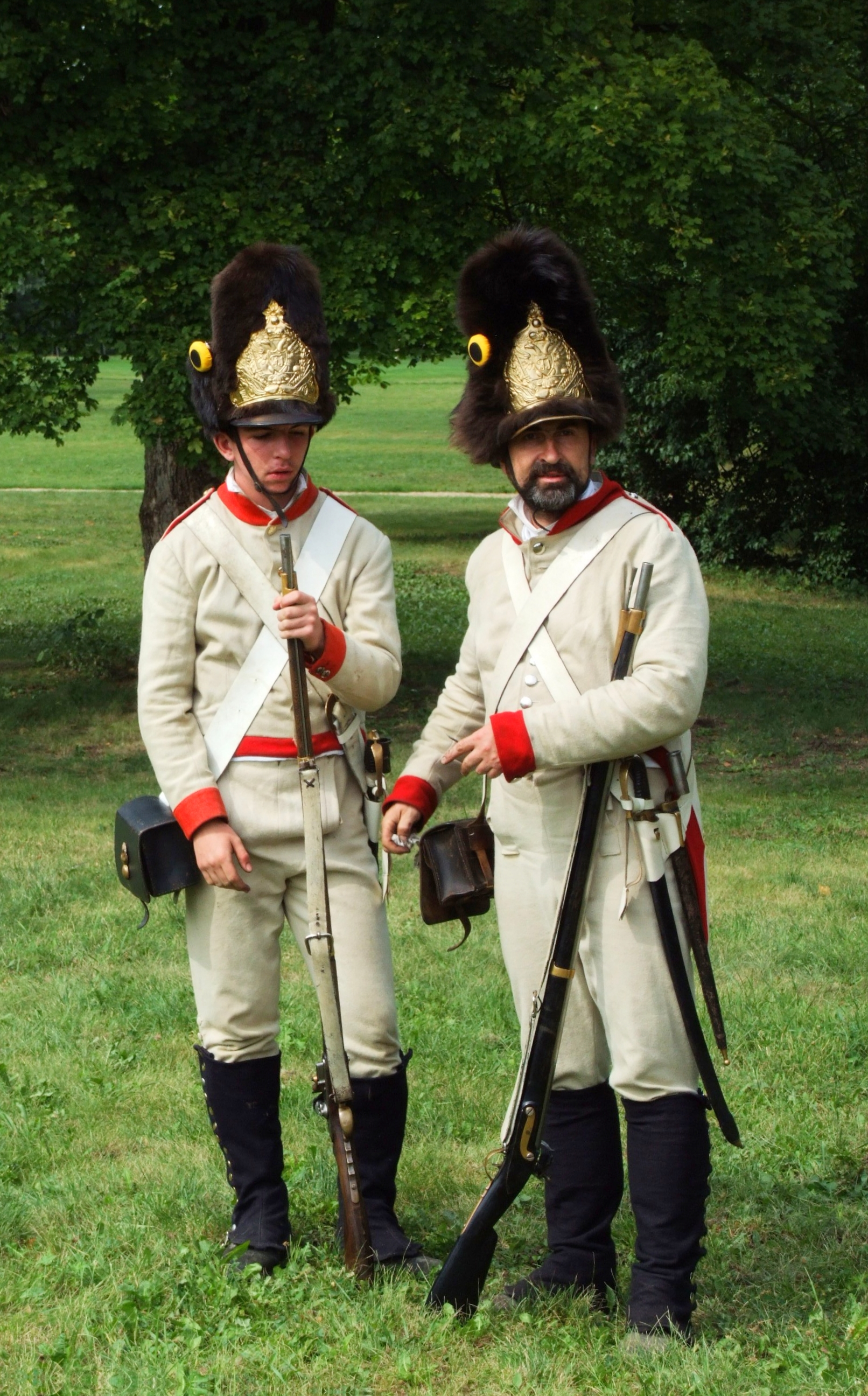 Reenactors of the Austrian army in Austerlitz (Slavkov u Brna), Moravia